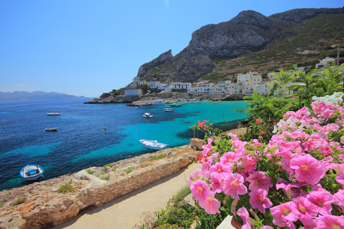 Just got back today from my trip around Sicily. Perfect weather, nice places, gorgeous food and... a paradise for photographers! Came back with 700 pictures in my camera, but don't worry: I will only share the few decent ones! The shot above is taken from a terrace in Marettimo, Egadi islands. Just to share the overall "feeling" from this great land. Sono appena tornato dal viaggio in Sicilia. Tempo perfetto, luoghi suggestivi, cibo buonissimo, un paradiso per i fotografi. Sono tornato con più di 700 fotografie ma non temete, condividerò solo le poche più decenti ! La foto qui sopra è da una terrazza a Marettimo, isole Egadi. Giustappunto per condividere la sensazione generale di questa magnifica terra.